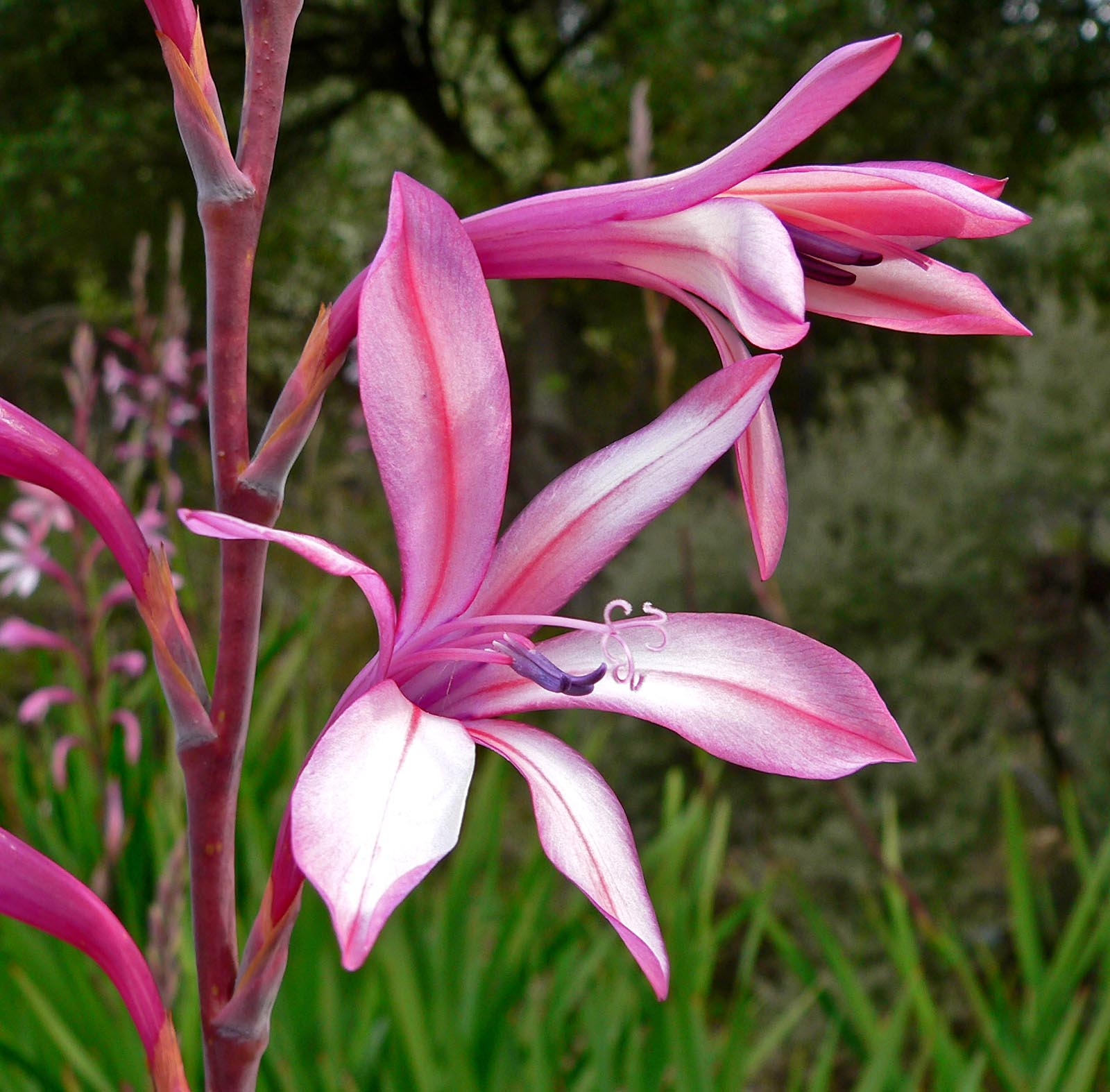 Photo of Watsonia pyramidata at the University of California Botanical Garden